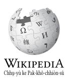 A logo for Wikipedia in the Hakka Chinese language.